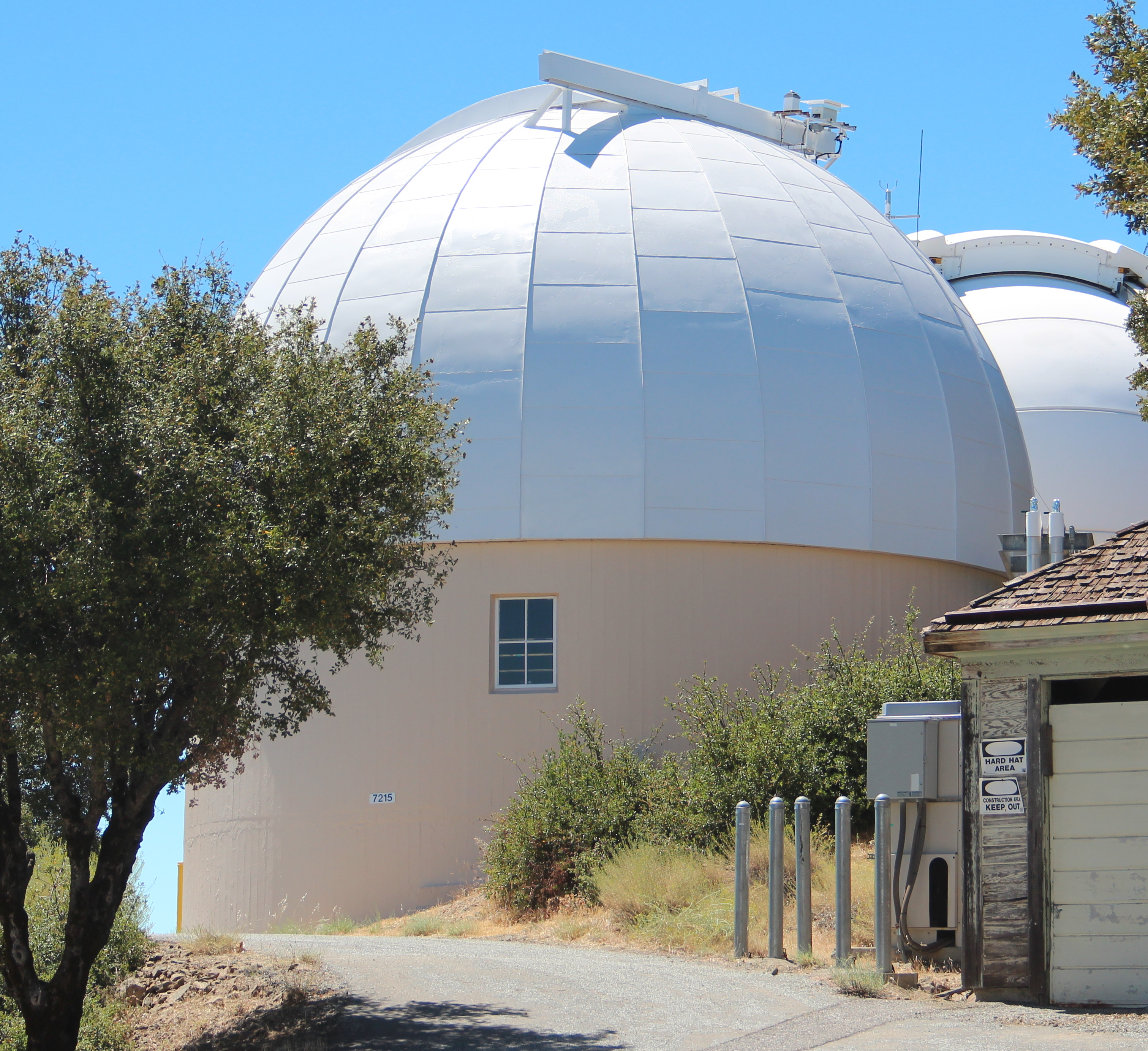 Carnegie telescope and Automated Planet Finder domes